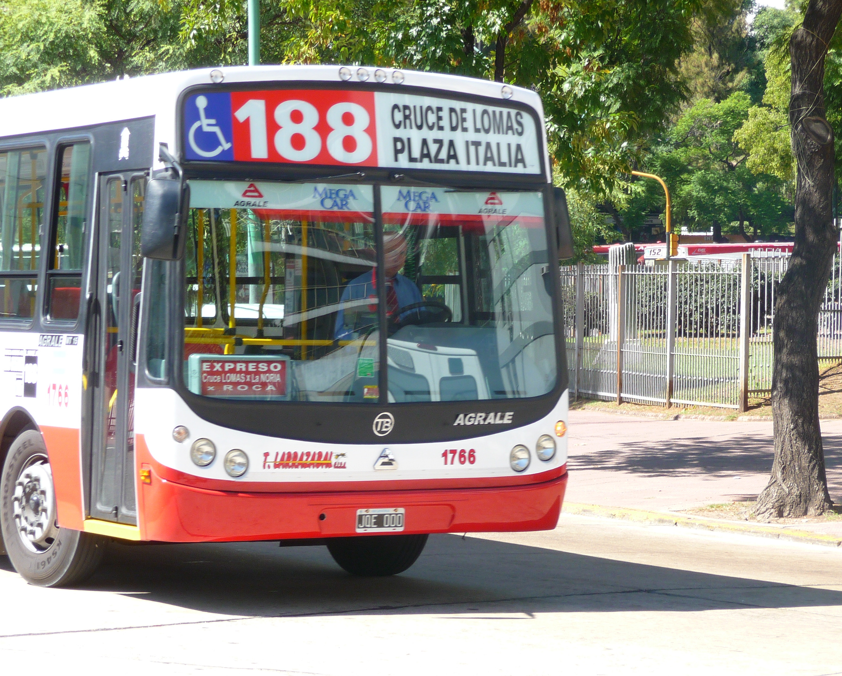 Todo Bus bus (reg. JQE 000, #1766) with Agrale MT 15 chassis in Buenos Aires, Argentina. Colectivo, line 188, Transporte Larrazábal operator.